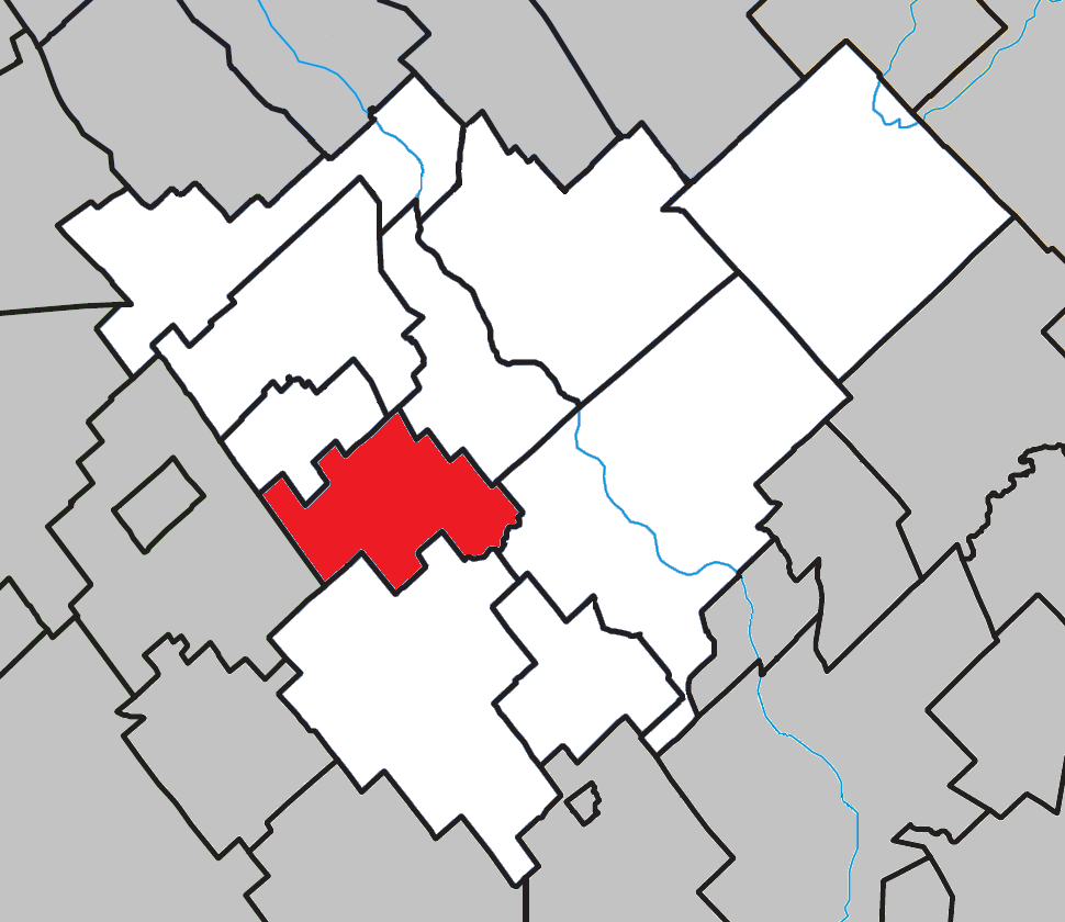 Location of Saint-Jules, Quebec within Robert-Cliche Regional County Municipality.